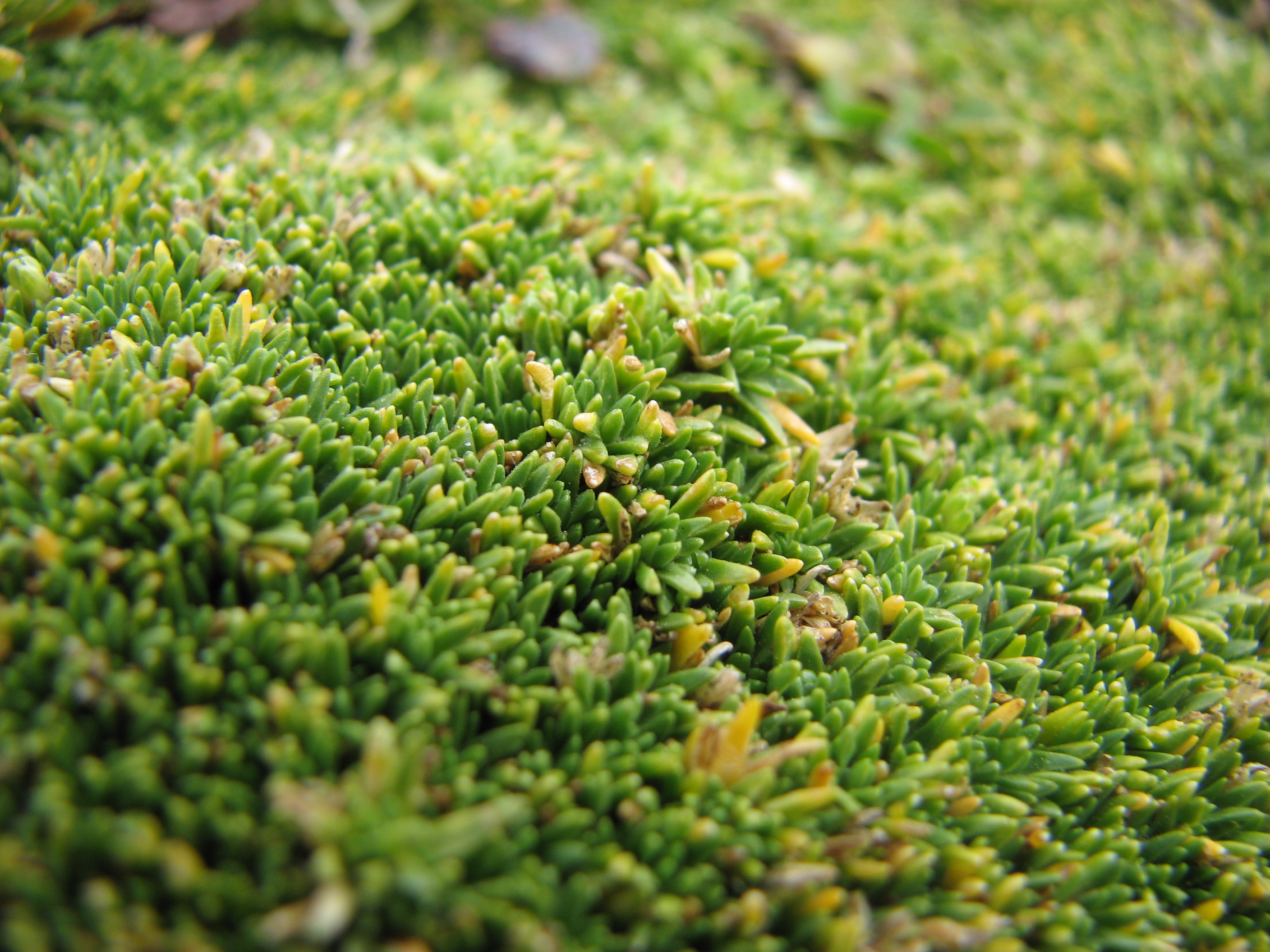 Bucegi tabeland moss